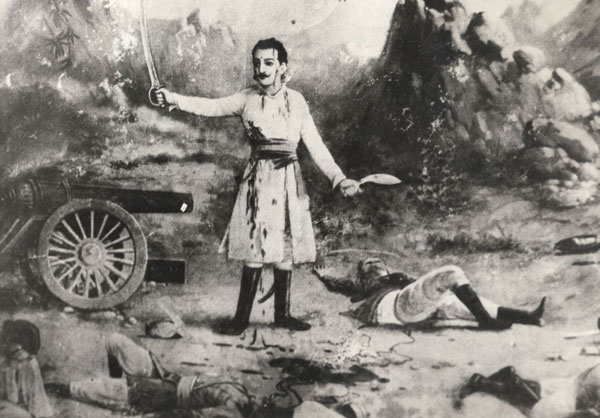 One of the Commanders of the Gurkha troops during the Nepal Wars